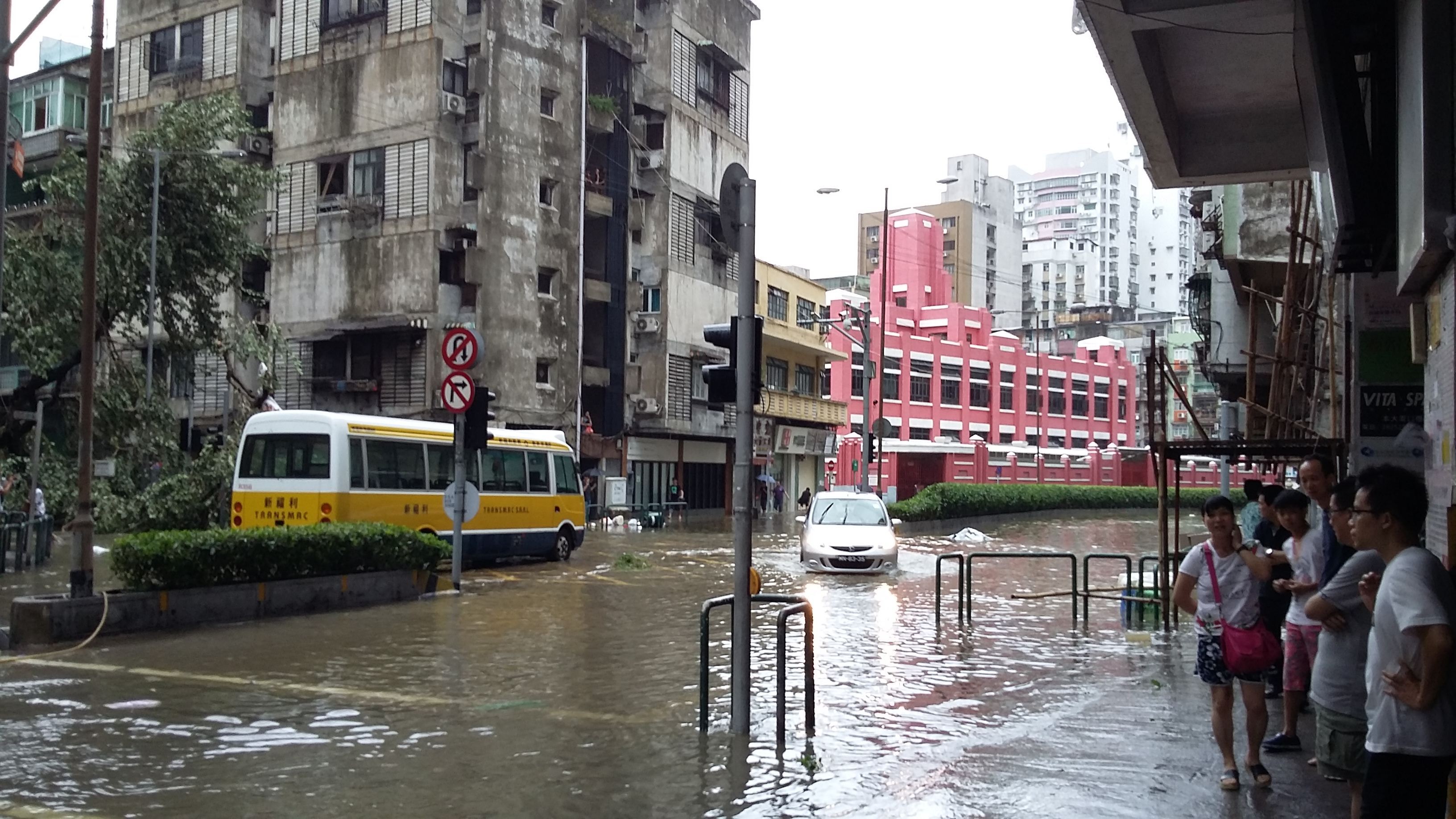 During the storm, at Freguesia de Santo António.